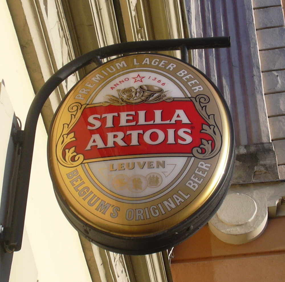 Table in pub from czech republic. This is my foto!